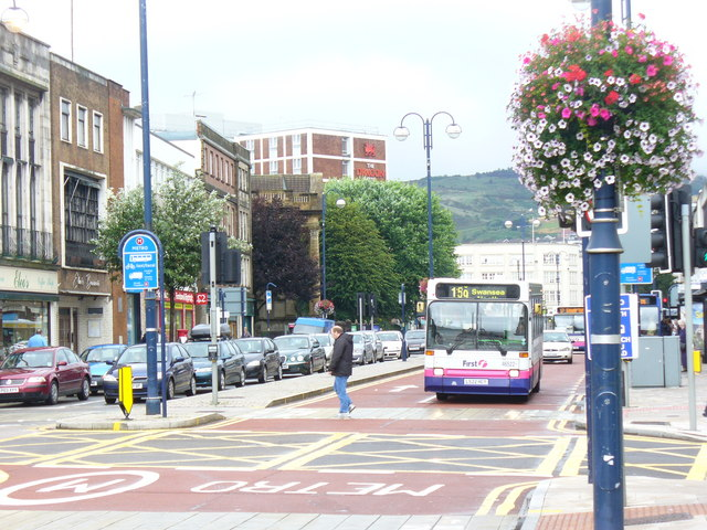 Kingsway, near to Swansea/Abertawe, Wales. Busy post-WW2 dual carriageway in central Swansea, lined with many post-war buildings. Link